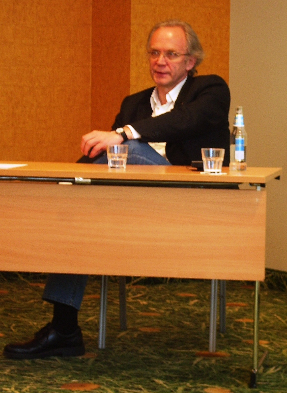 Estonian politician Eiki Nestor, born 1953